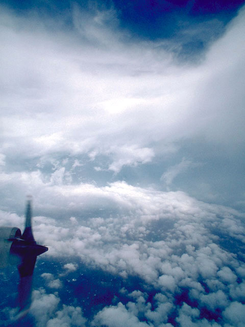 On September 22, 1987, NOAA's two WP-3D hurricane reconnaissance aircraft flew an eight hour mission out of San Juan, Puerto Rico, into Hurricane Emily. Although small, Emily packed some of the most violent turbulence and strongest updrafts and downdrafts and ever encountered in a hurricane. Flying at 10,000 and 18,000 feet respectively, the two NOAA planes found updrafts in excess of 50 mph (25 m/s) and downdrafts over 40 mph (20 m/s). The low aircraft encountered these strong vertical winds in a ring 5 miles across surrounding Emily's eye. Such widespread vertical motion had never before been observed in a hurricane. These powerful updrafts and downdrafts hurled the plane up and down up to 1,500 feet during eyewall penetrations, despite the pilot's efforts to keep the plane flying straight and level.